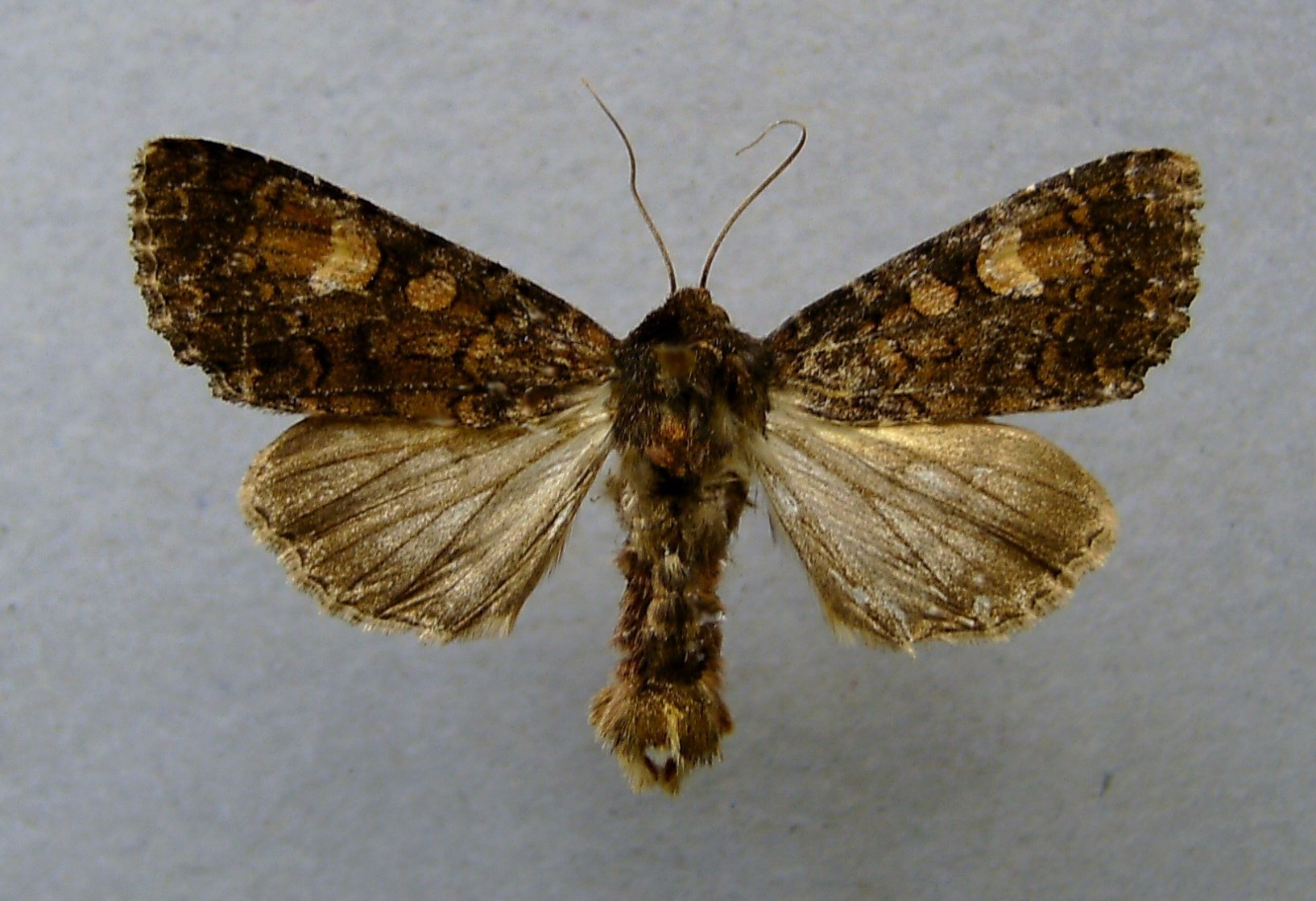 Apamea rubrirena